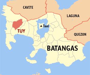 Map of Batangas showing the location of Tuy